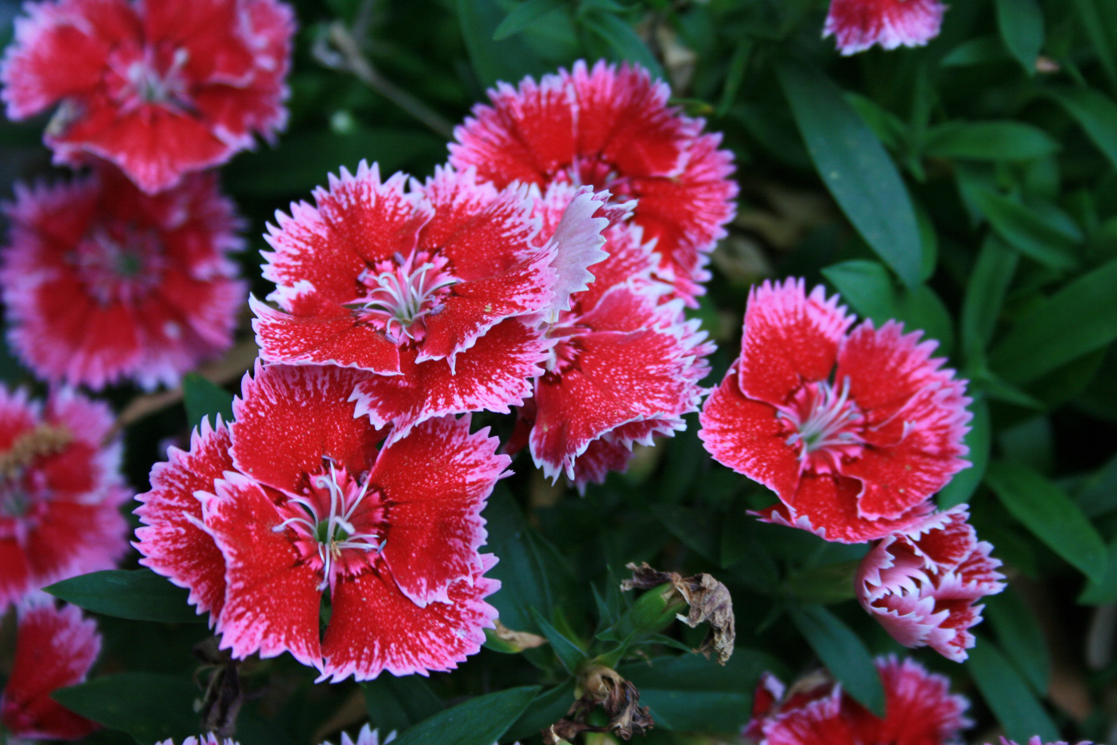 Photo of Sweet William (Dianthus barbatus) flowers. Taken in northern Florida, USA.